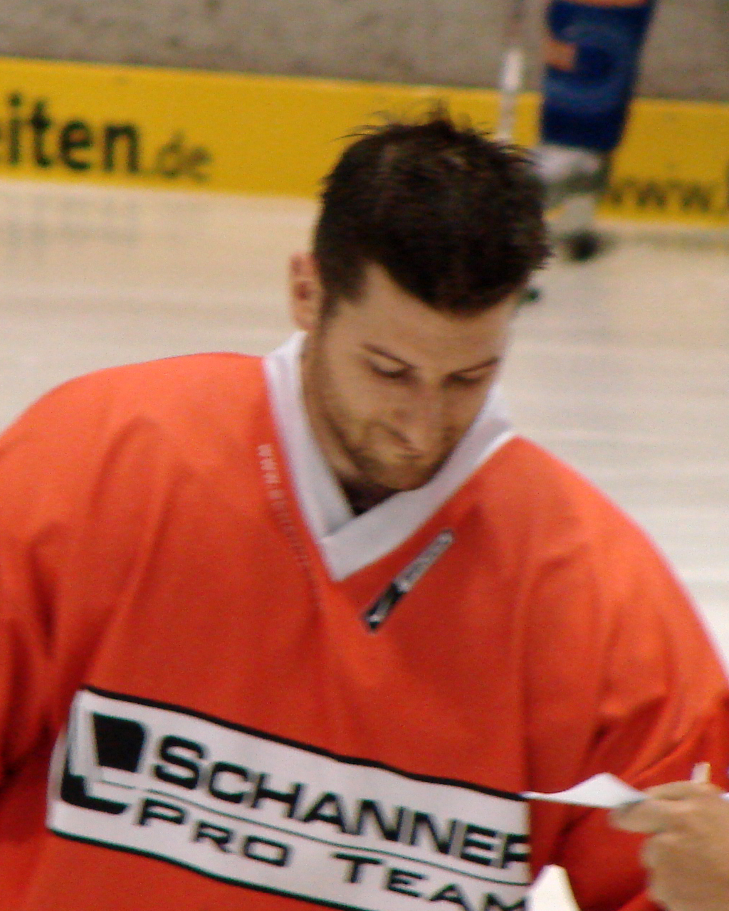 Dominic Auger